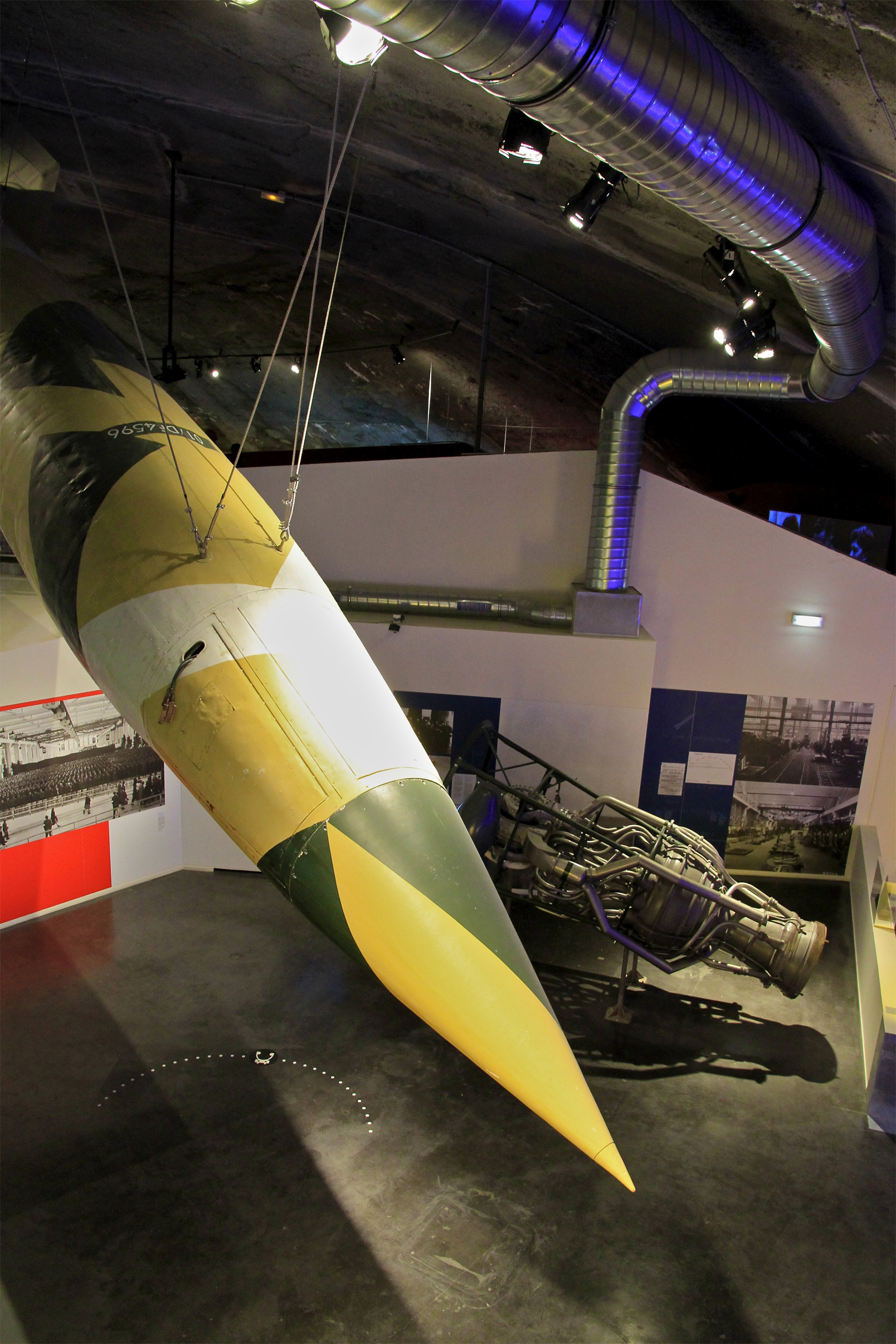 Original V-2 rocket and engine on display at the museum of La Coupole, Wizernes, France.